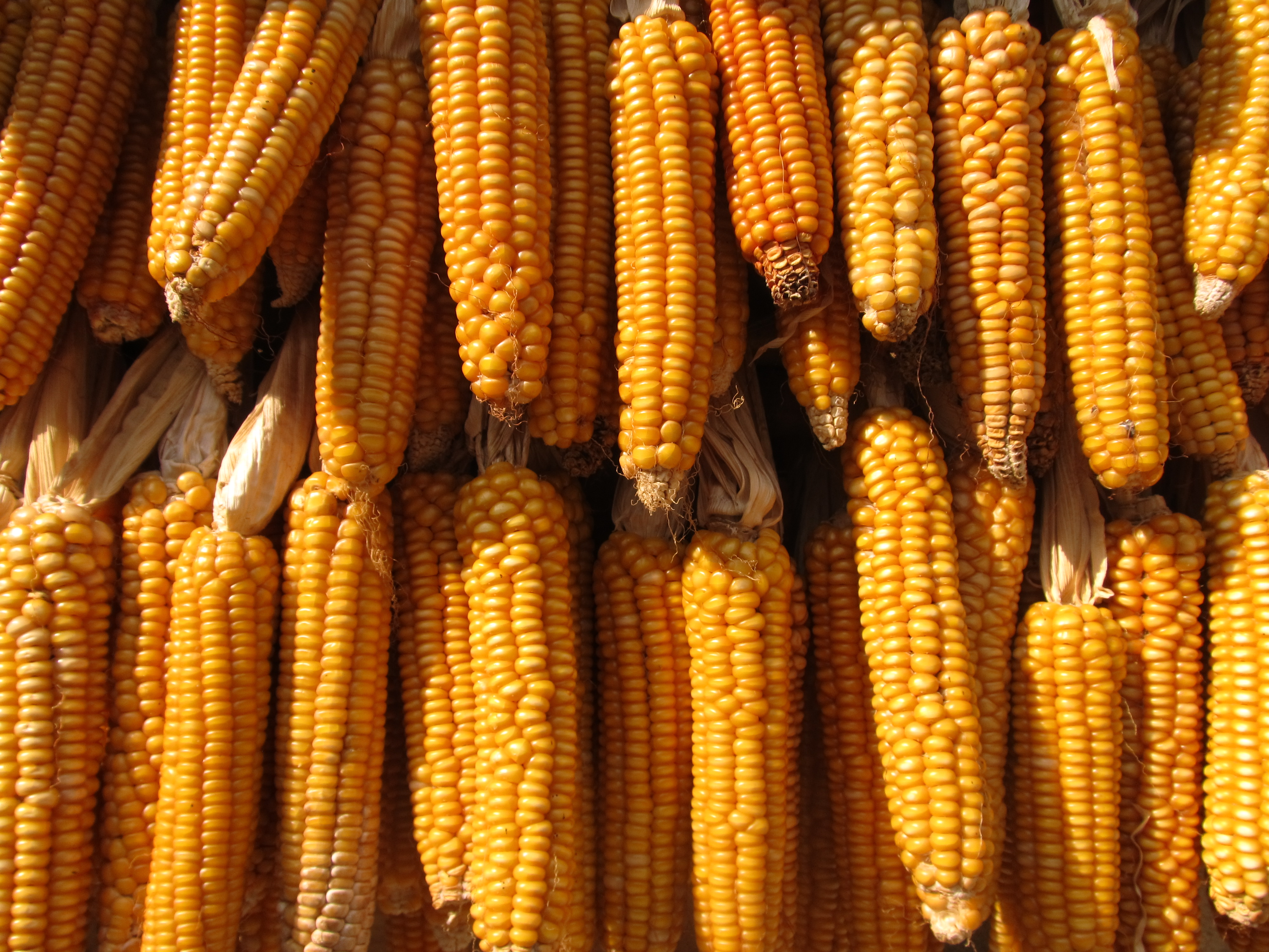 beautyfull corn